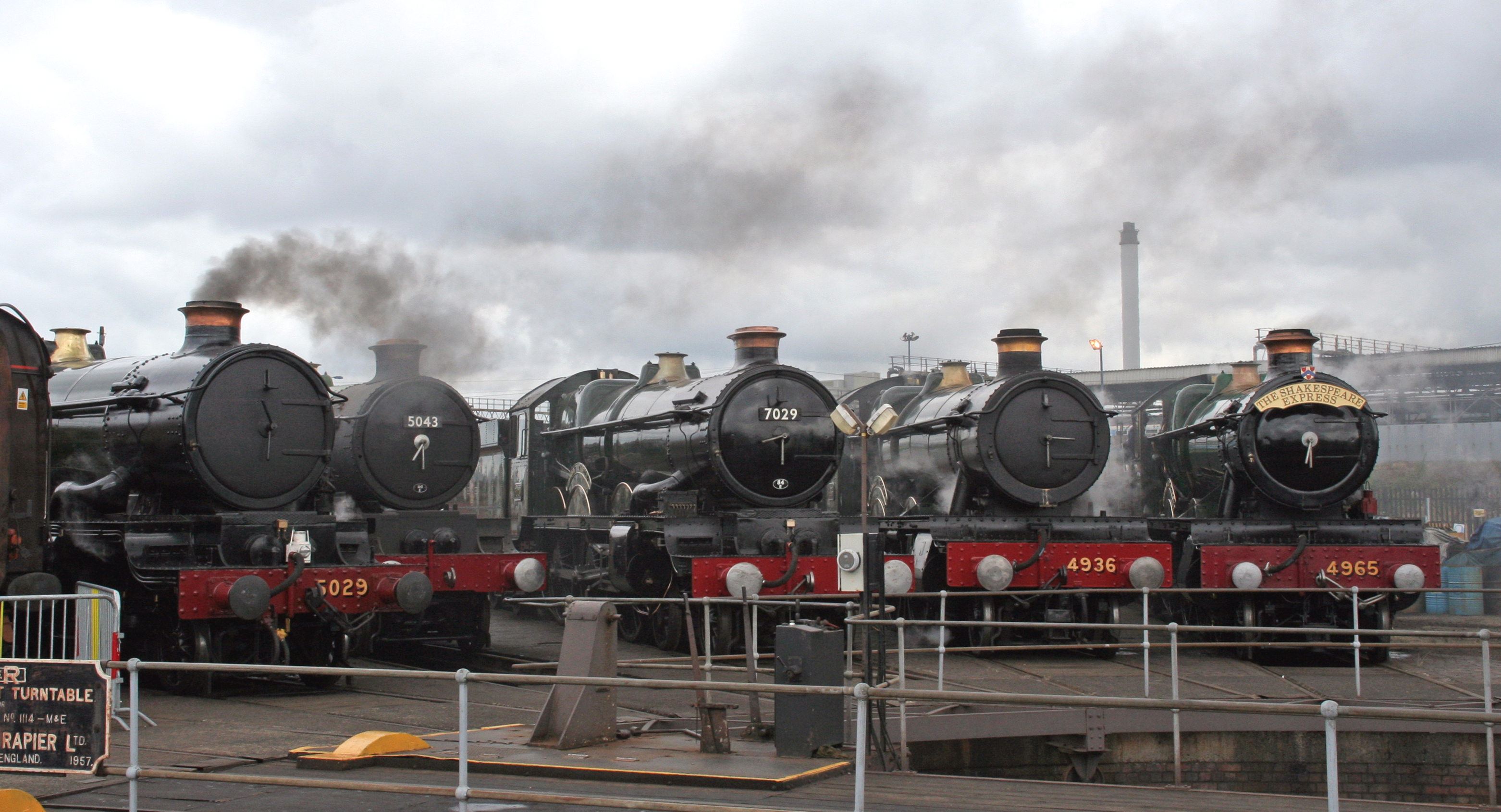 Castles - 5029 Nunney Castle, 5043 Earl of Mount Edgcumbe and 7029 Clun Castle AND Halls - 4936 Kinlet Hall and 4965 Rood Ashton Hall at the open weekend to celebrate one hundred years of the Tyseley Locomotive depot, Birmingham